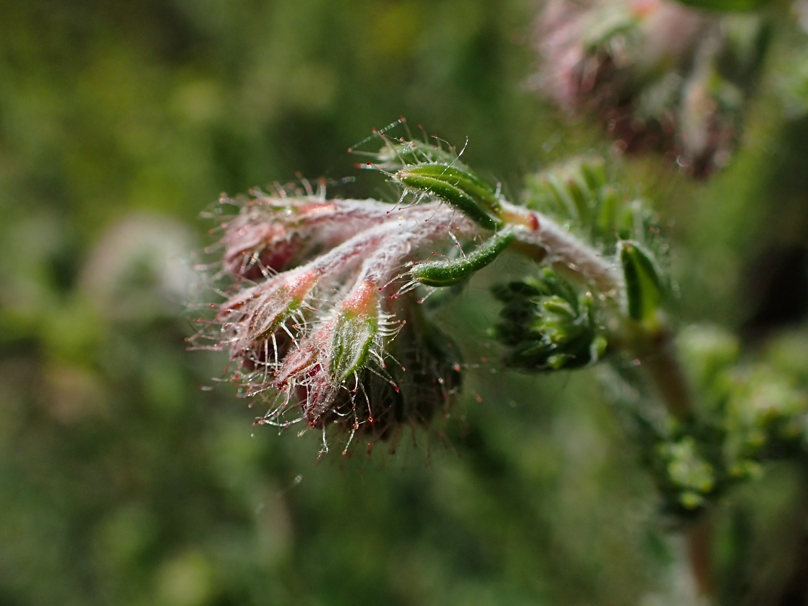 Erica tetralix in the Botanischer Garten, Berlin-Dahlem